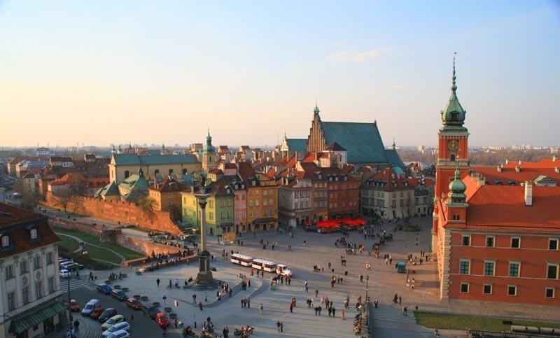 Royal Castle Square in Warsaw